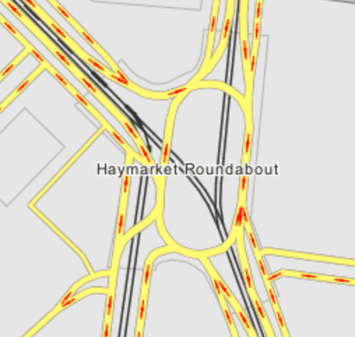 Birds eye view map of the Haymarket roundabout in Melbourne